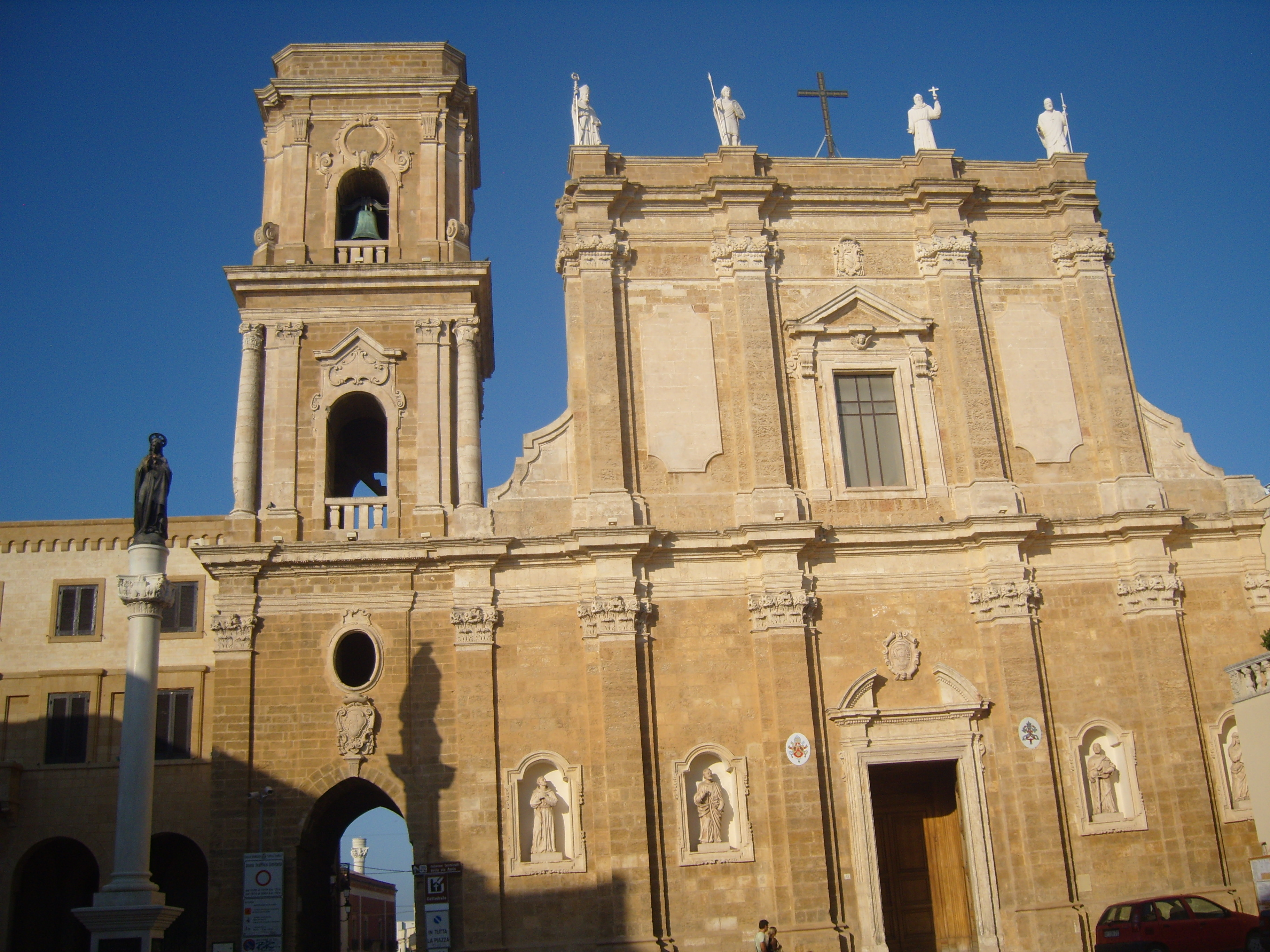 Brindisi cathedral